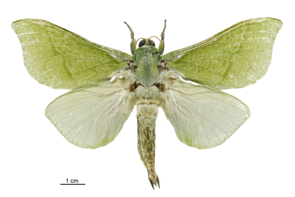 Male specimen of Aenetus virescens photographed by Birgit E. Rhode, Landcare Research New Zealand Ltd.